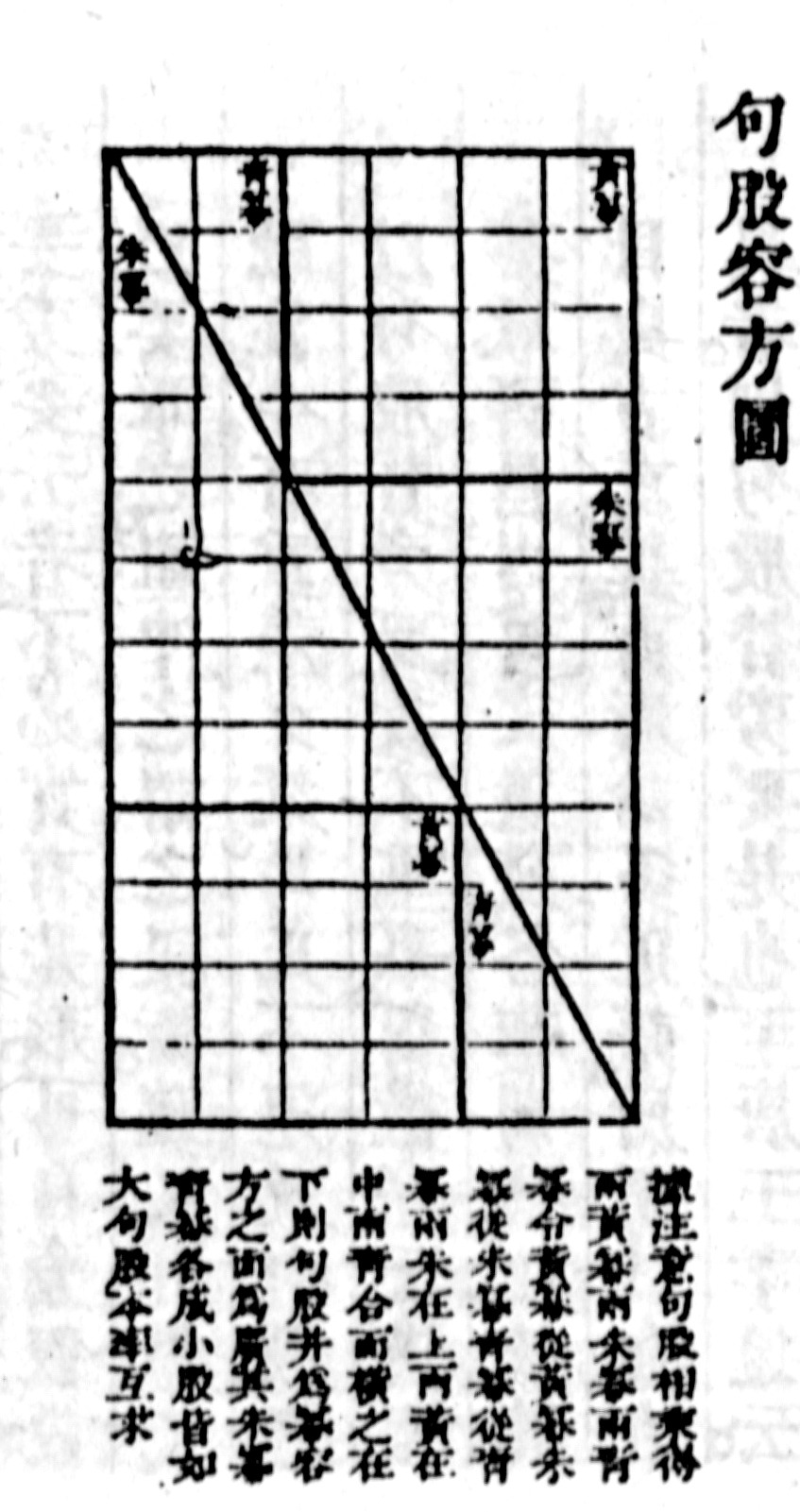 Dai Zhen(（1724 - 1777） Square in a right angle triangle diagram 戴震 句股容方图